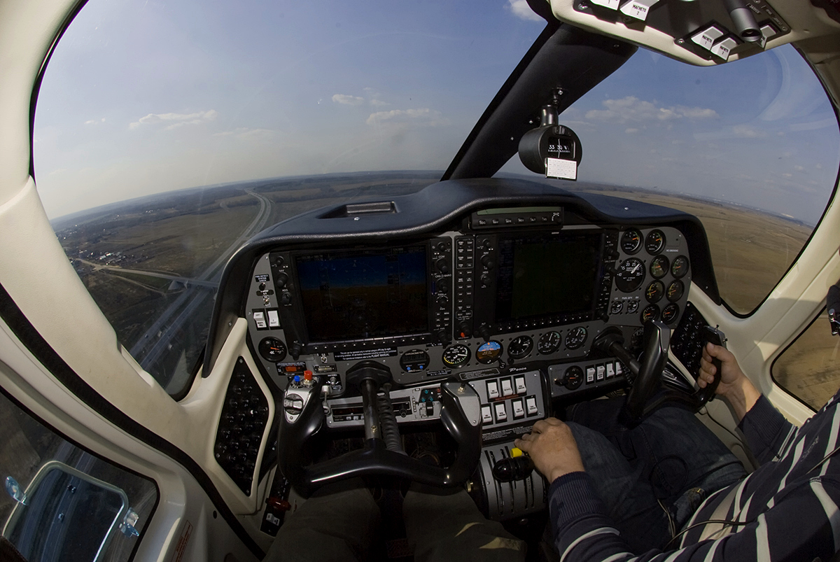 "ChelAvia" Tecnam P2006T RA-1334G in flight